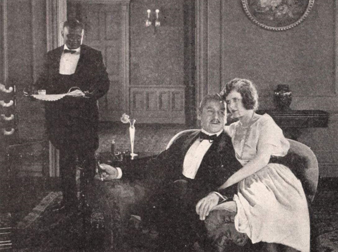 Still from the American drama film The Lying Truth (1922) with Marjorie Daw and Noah Beery, on page 78 of the April 15, 1922 Exhibitors Herald.